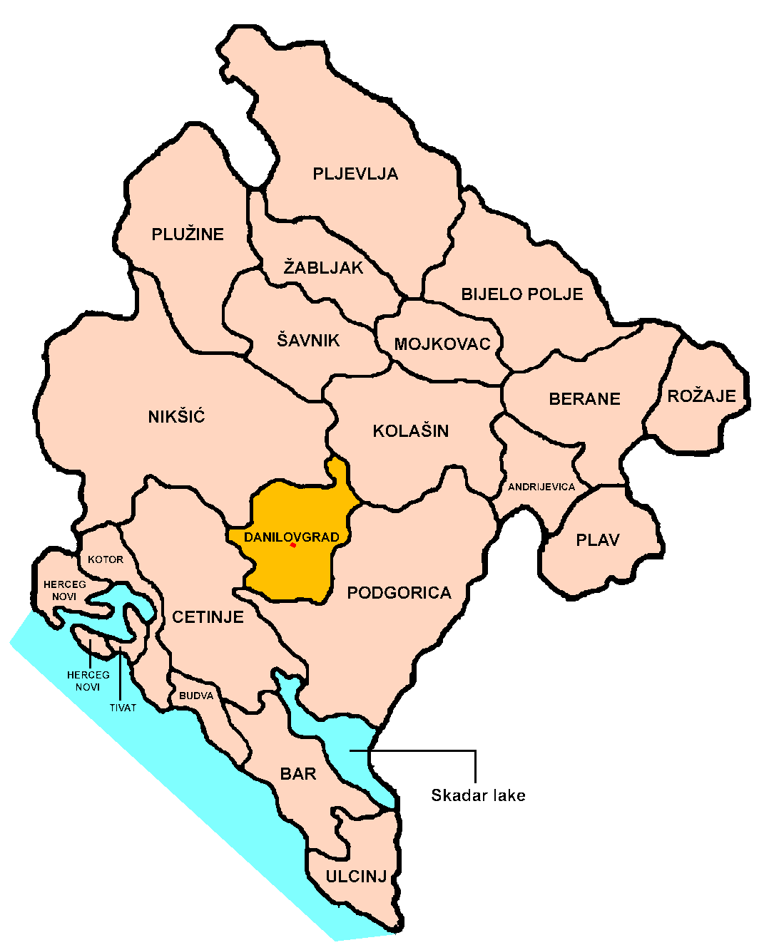 Location of Danilovgrad town and municipality within Montenegro